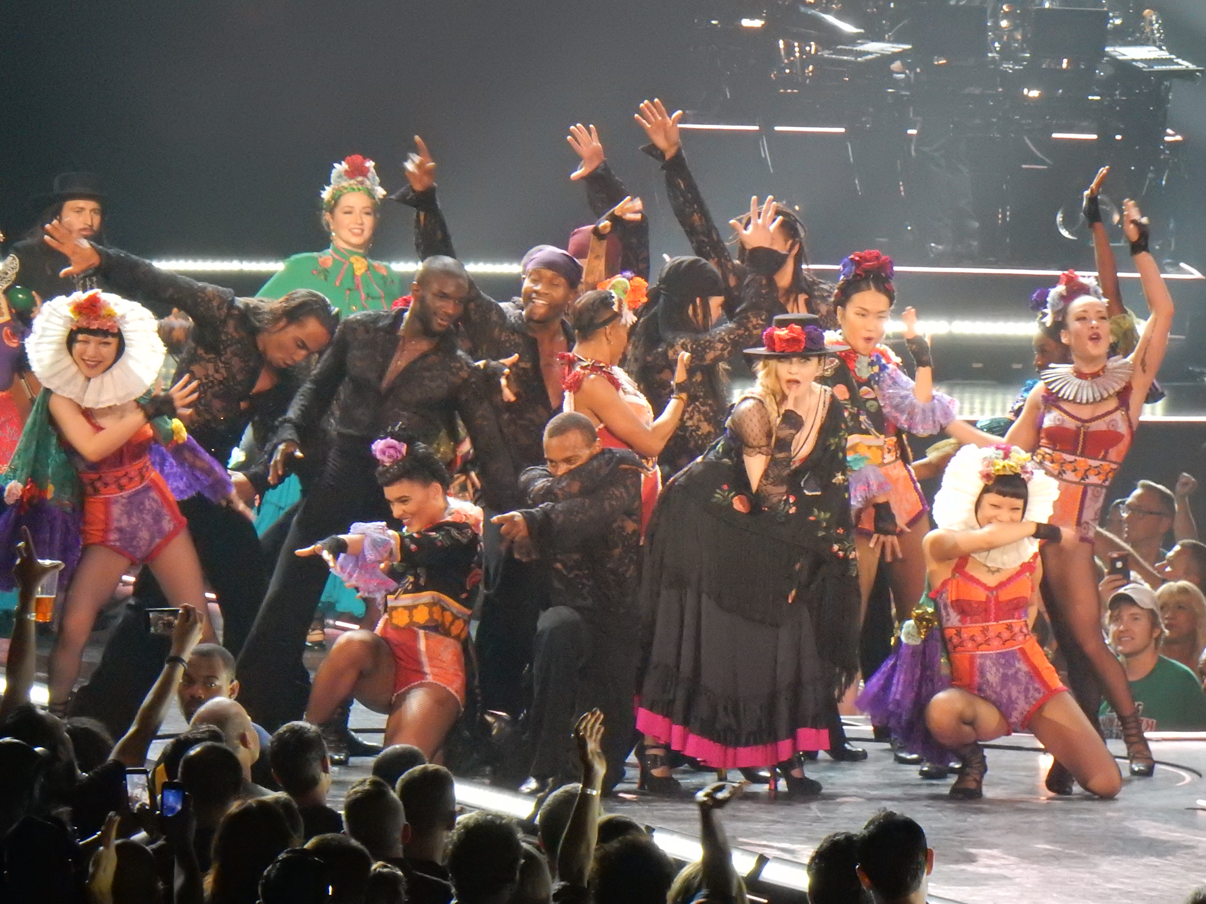 Madonna - Rebel Heart Tour 2015 - Washington DC